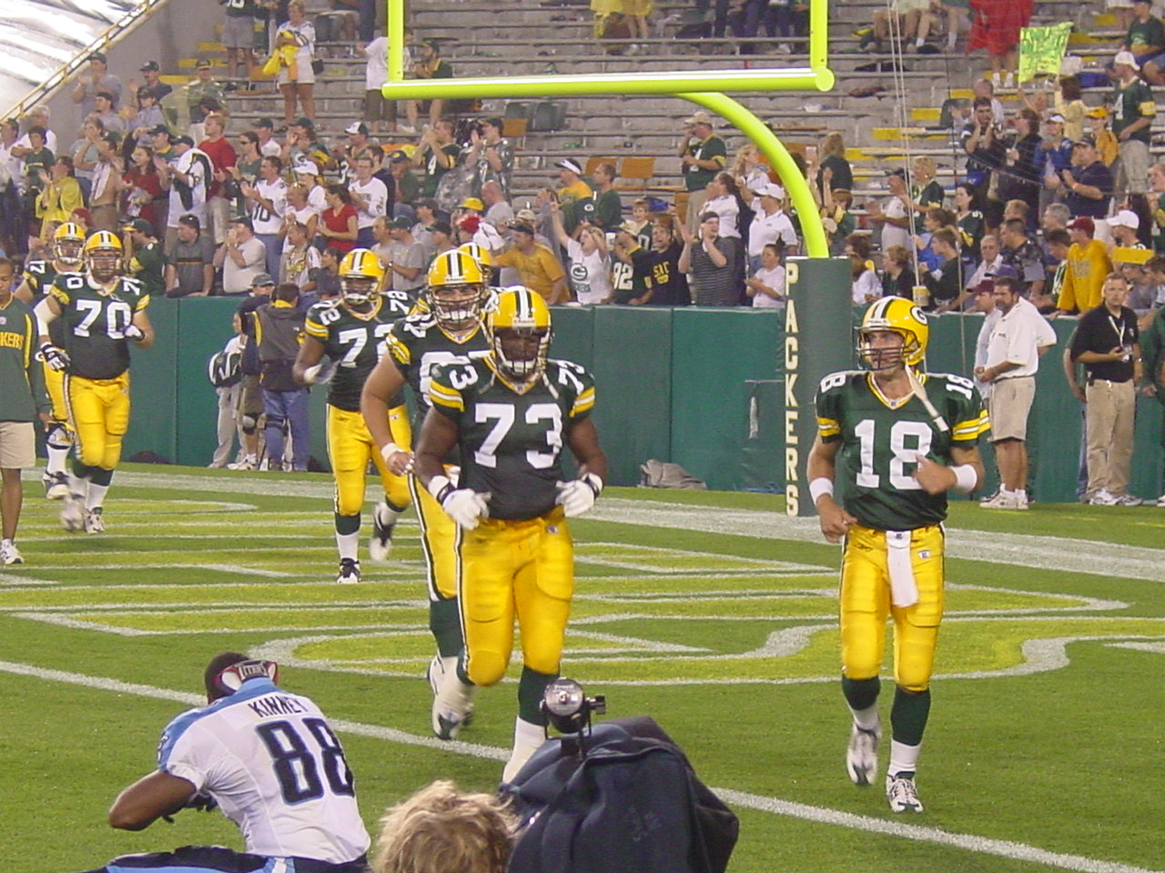 Green Bay Packers coming back out onto the field. Lambeau Field]. #18 is quarterback Doug Pederson.